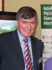 Brian Donahoe MP at "Make Parks a Priority" campaign launch